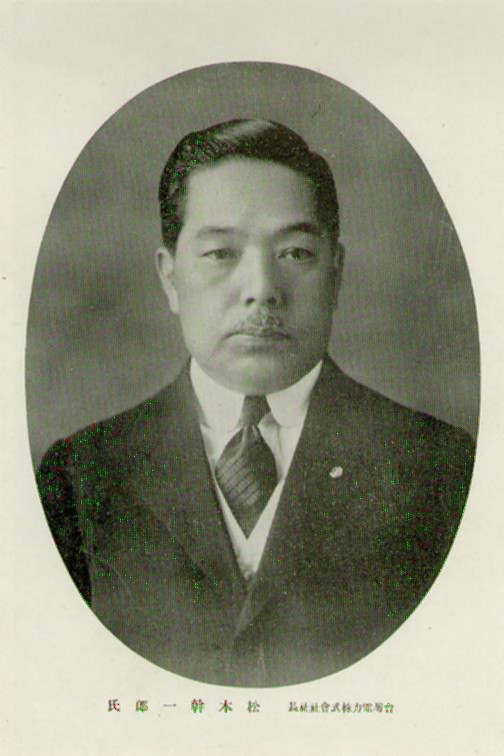 Matsuki Kanichiro(1871-1962), the chairman of Taiwan Power company in Japanese occupified period.